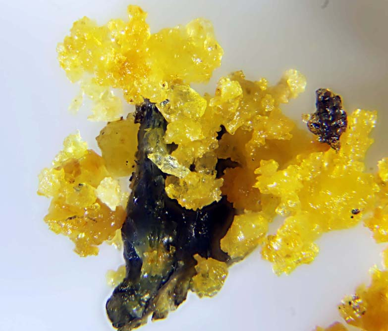 Yellowish orange crystals of the rare mineral erythrosiderite from the type locality in Vesuvius (Monte Somma, Vesuvius, Campania, Italy) and only one the very few localities known worldwide.